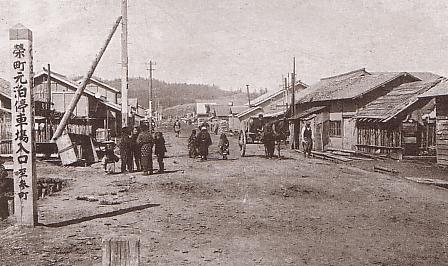 Sakaecho in Motodomari(Vostochnyi Восточный)